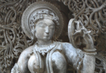 Belur Shillabalika